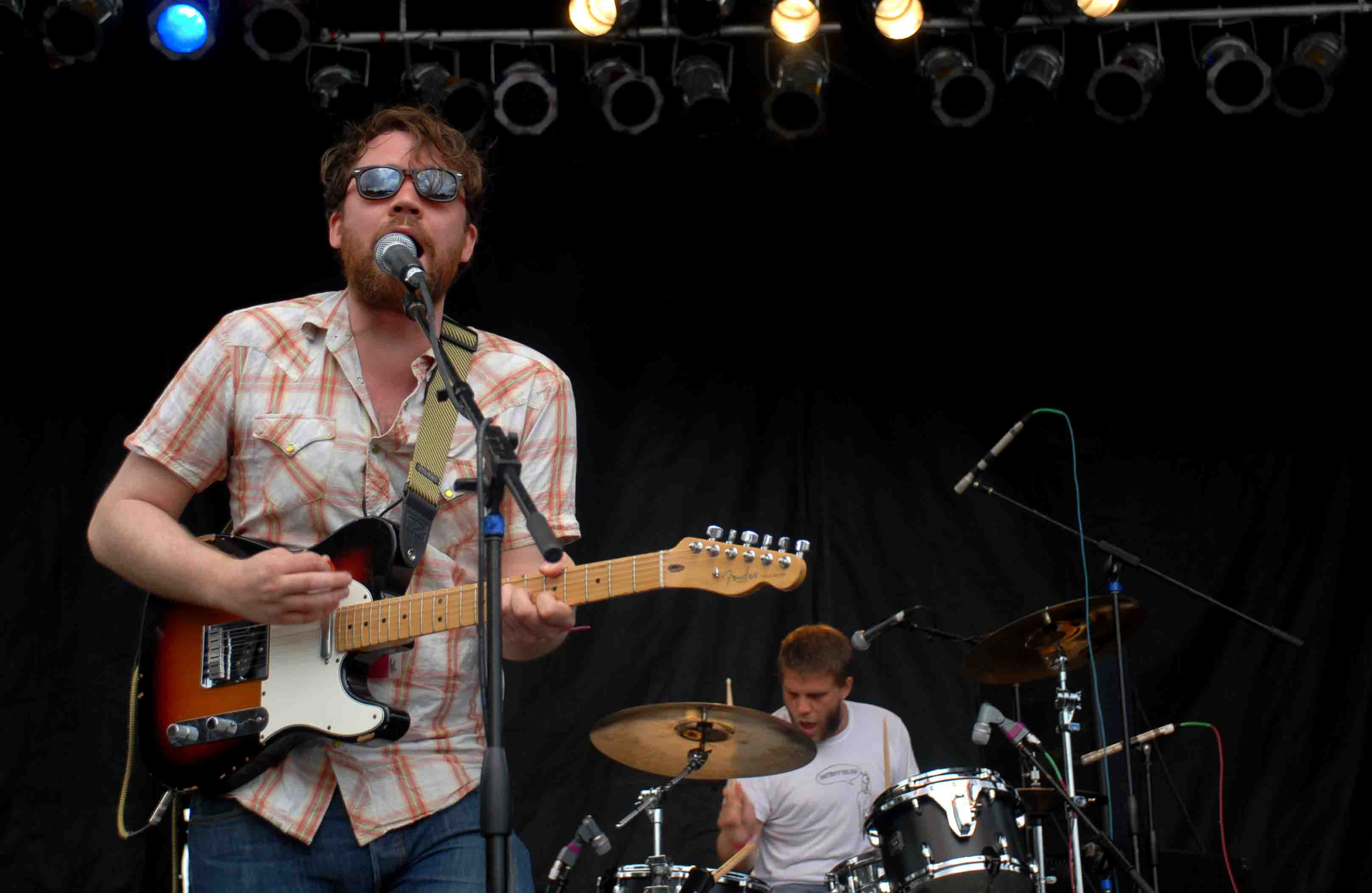 Scott and Grant Hutchison of Frightened Rabbit perform at Pitchfork.